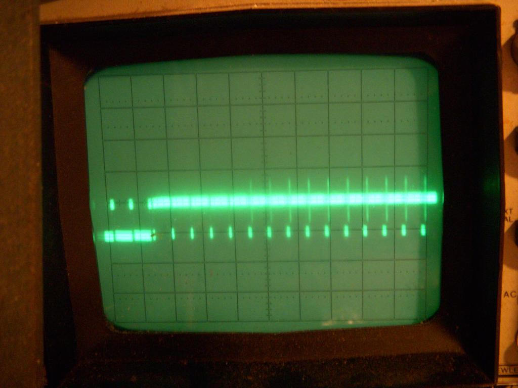 Vertical sync and start of frame sequence of PAL videosignal